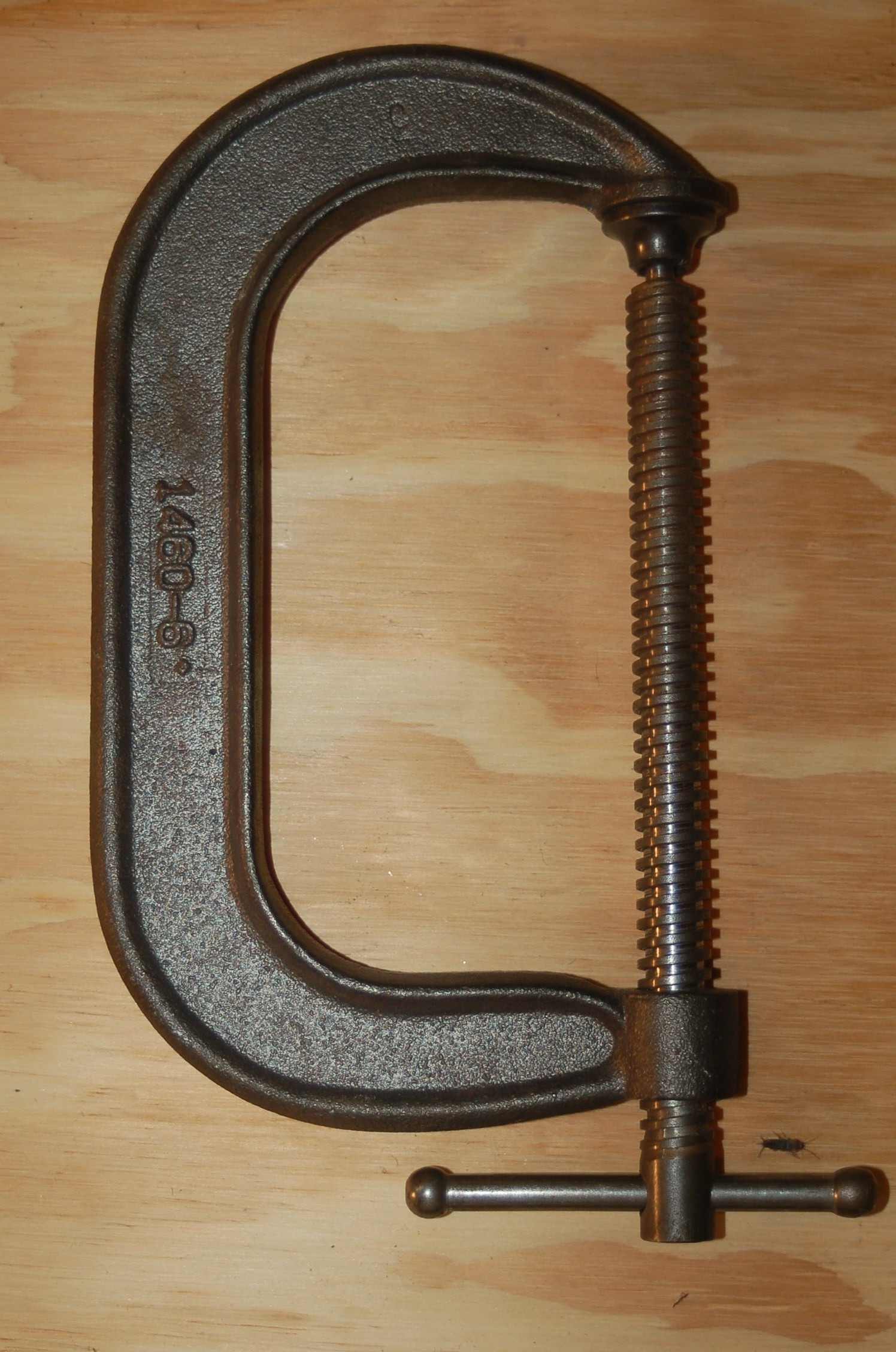 A closed 6" steel C-Clamp.